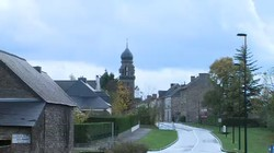 Vue de Corps-Nuds